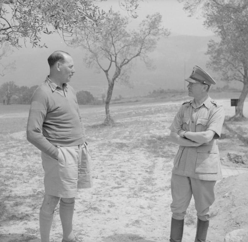 The British Army in Italy 1944 General Leese, commanding 8th Army, and General Alexander, commanding 15th Army Group, 12 May 1944.